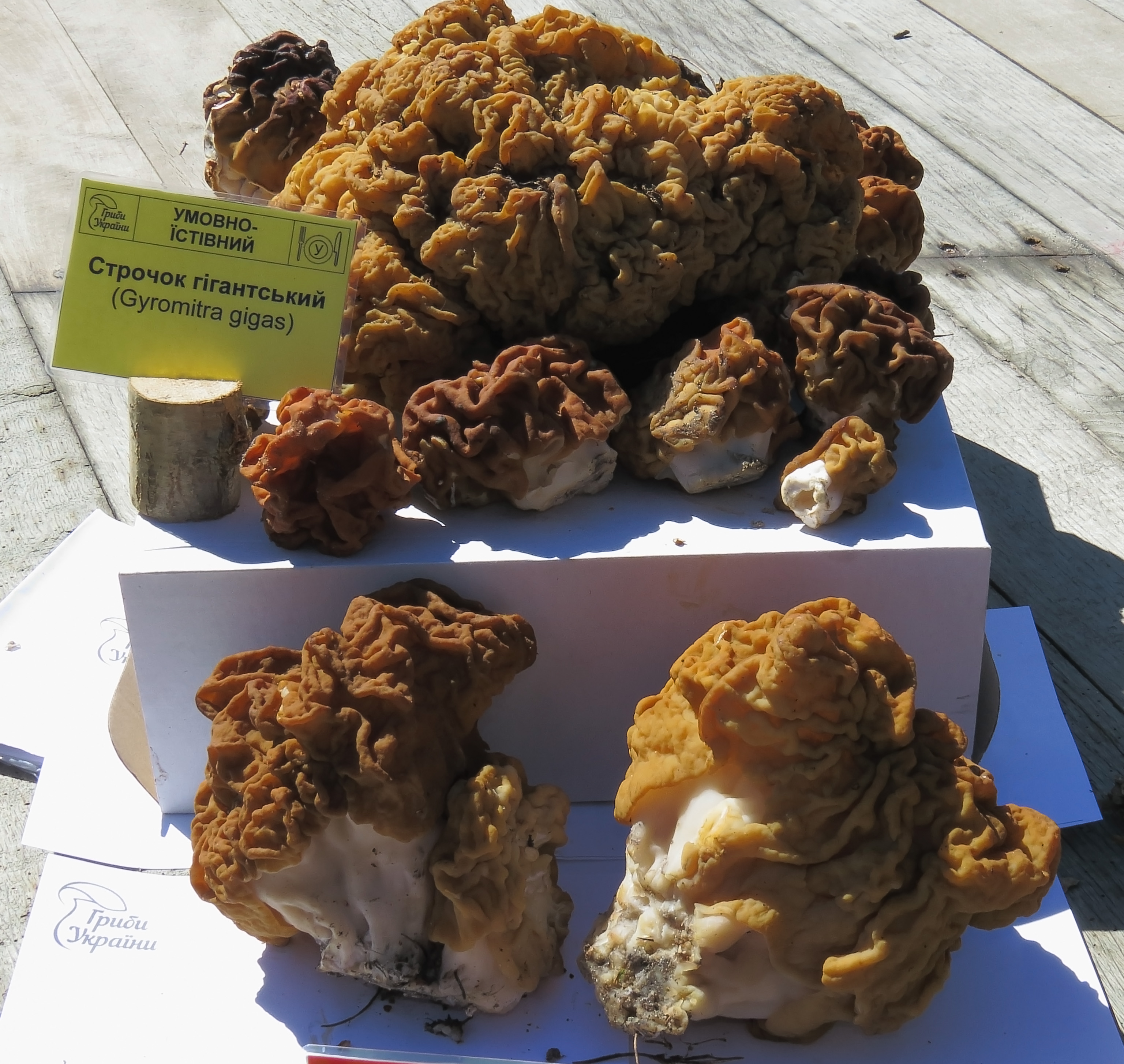 Mushroom exhibition in Shevchenko park, Kiev, Ukraine. Gyromitra gigas